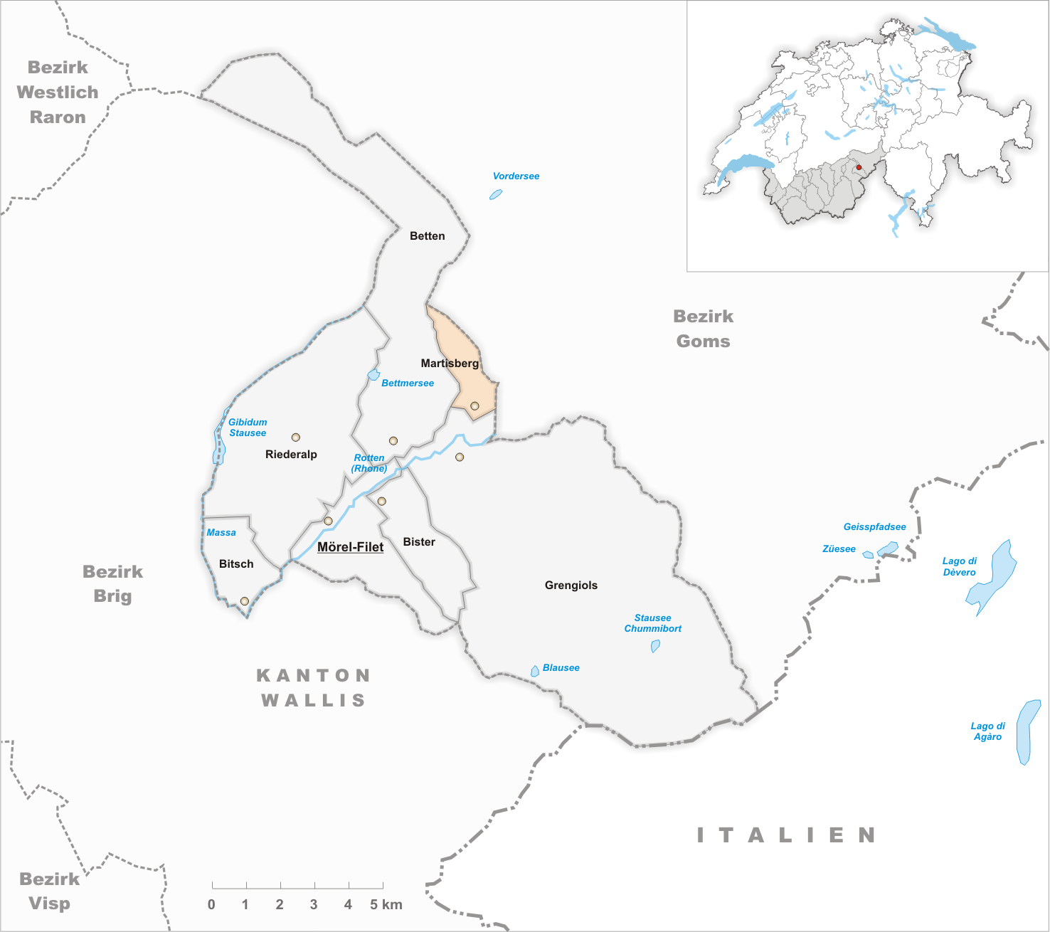 Municipality Martisberg